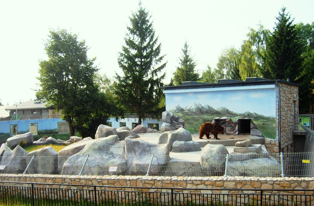 One of brown she-bears on a catwalk in Zoo in Zamość